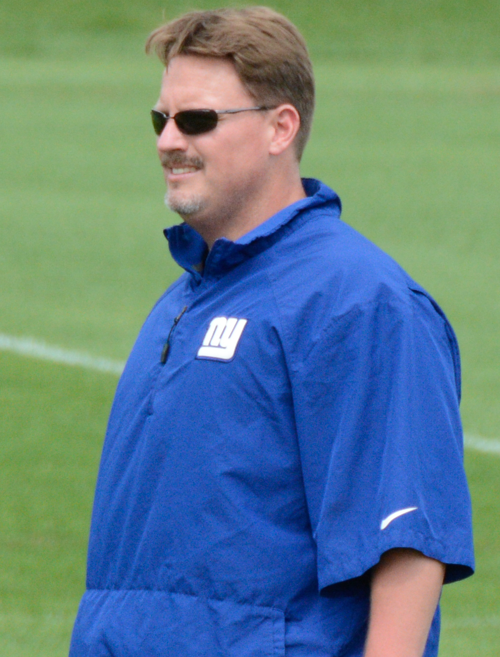 New York Giants training camp